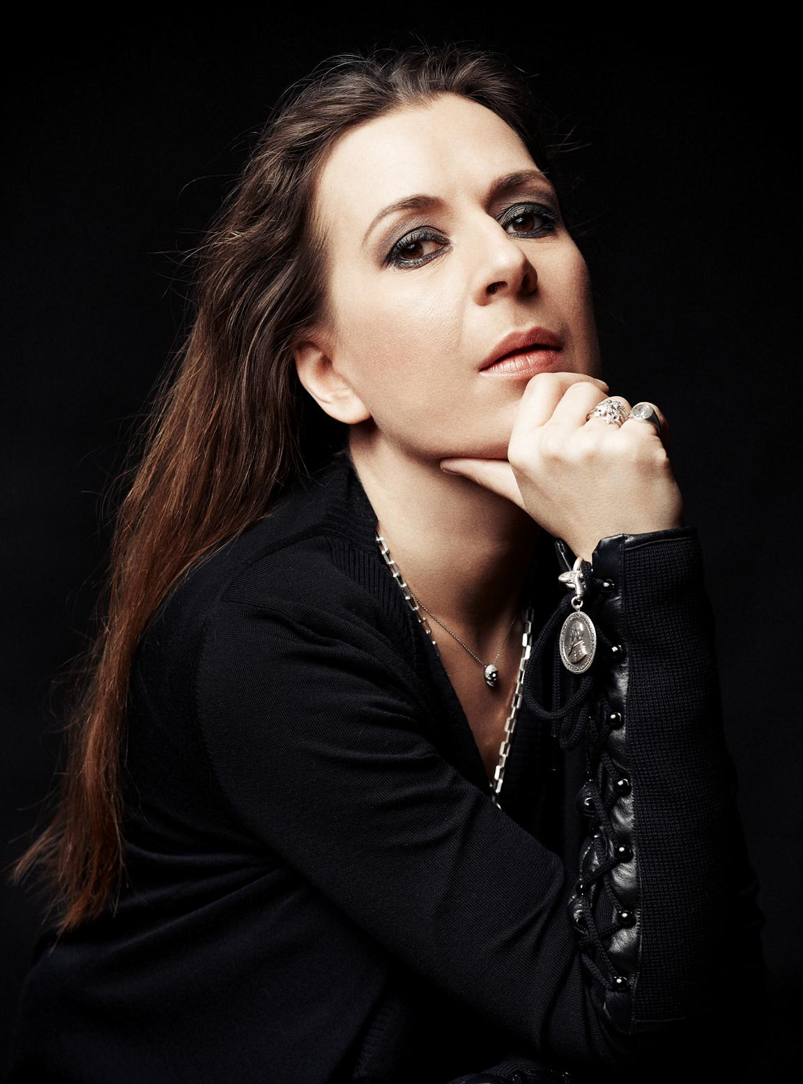 Portrait of Kristina Sabaliauskaitė